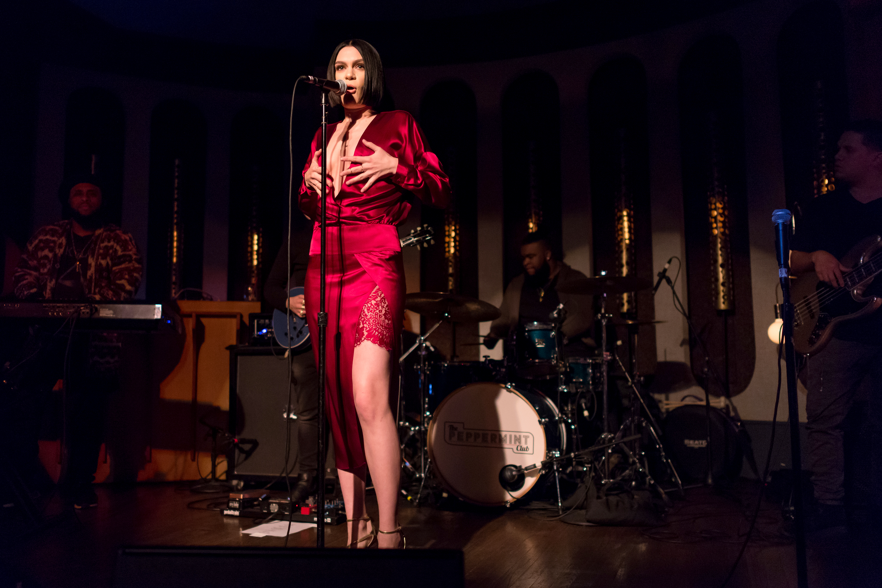 Jessie J performing live at The Peppermint Club in Los Angeles, California, on Sunday, December 17, 2017.